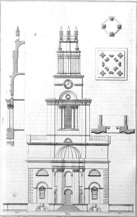 Engraving of St Anne's Limehouse in London, published in the Gentleman's Magazine.